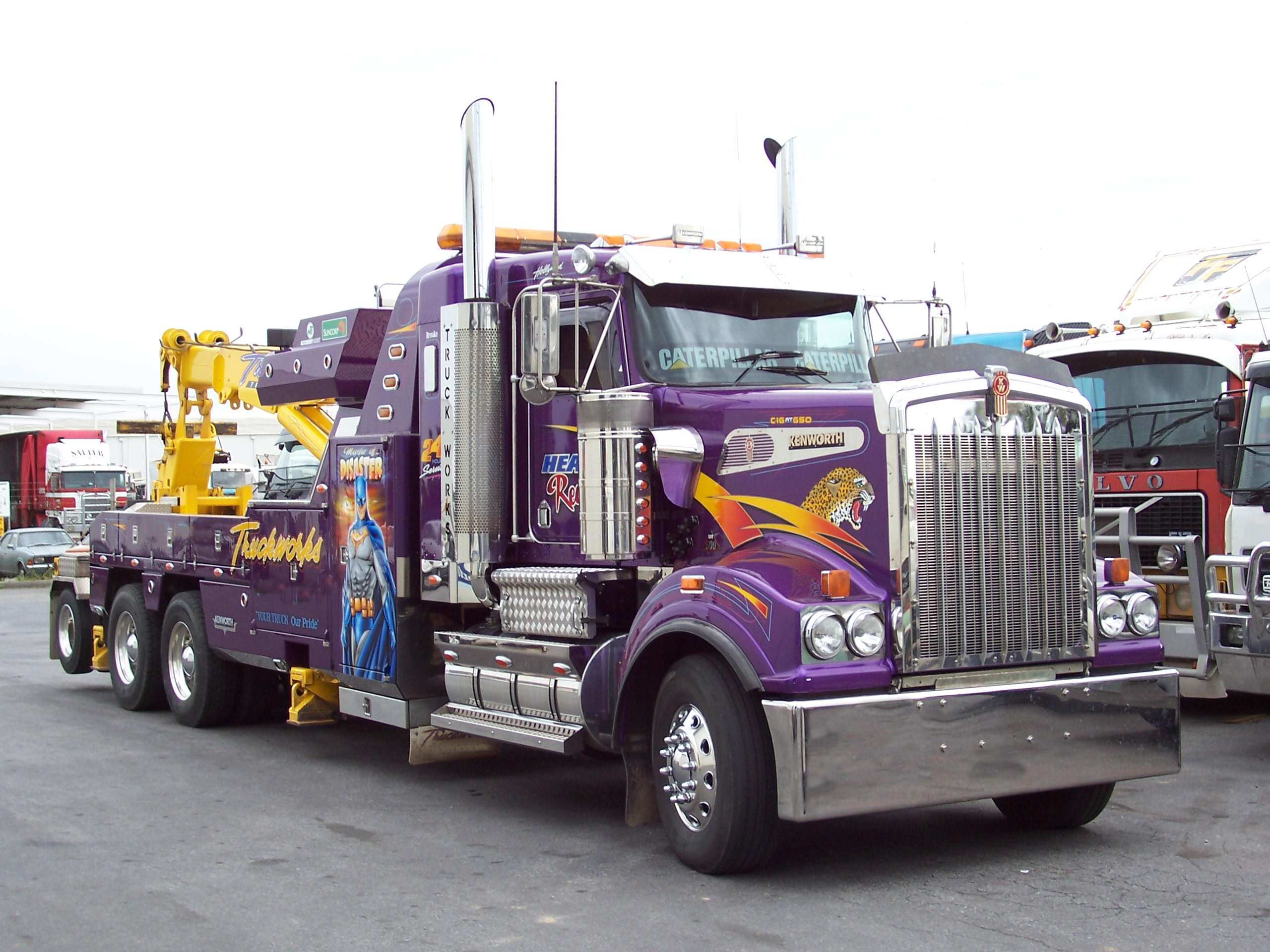 Australian Kenworth T908 heavy towing and recovery truck.